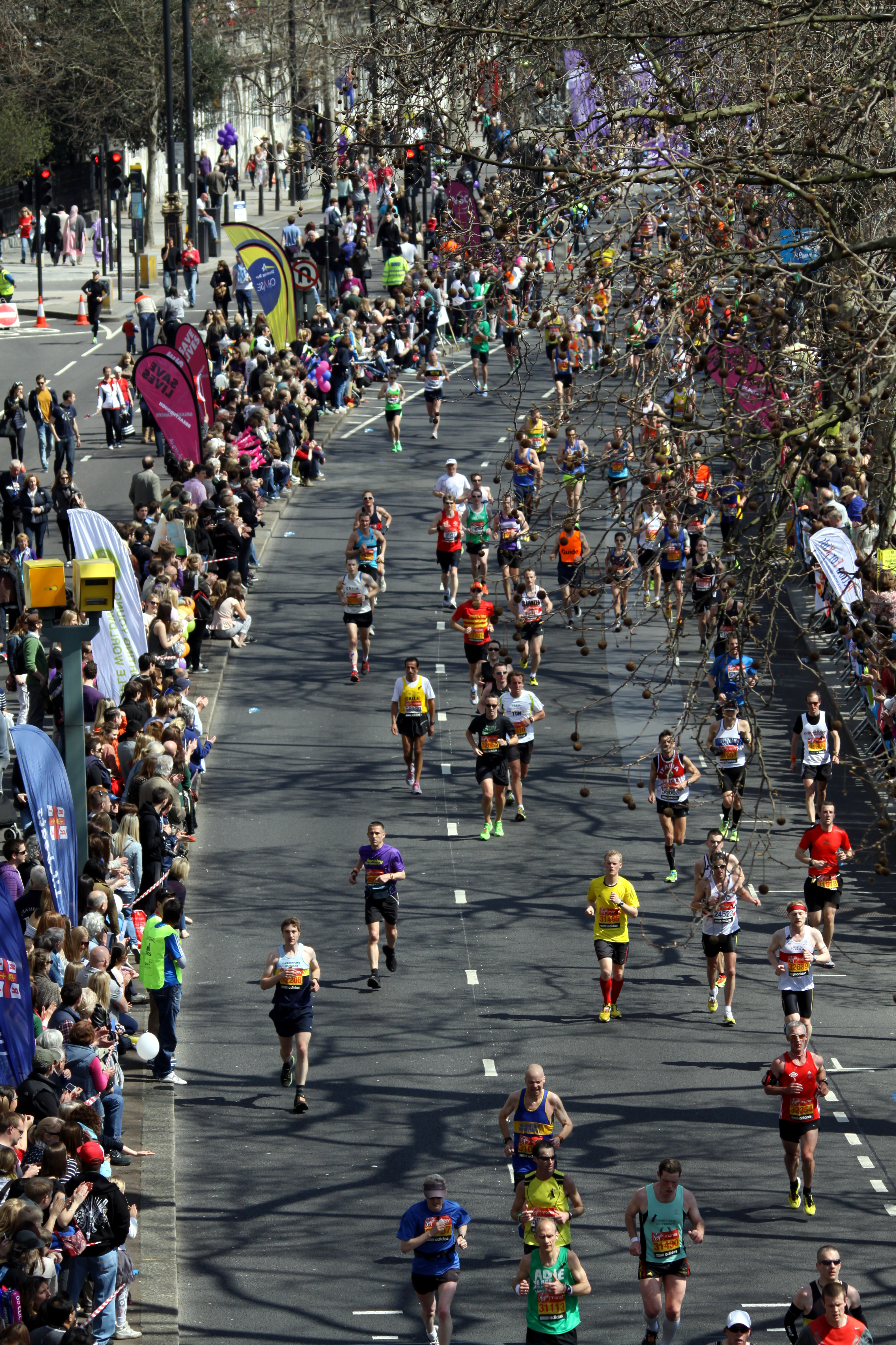 2013 London Marathon, photographed at Victoria Embankment, London, Great Britain.